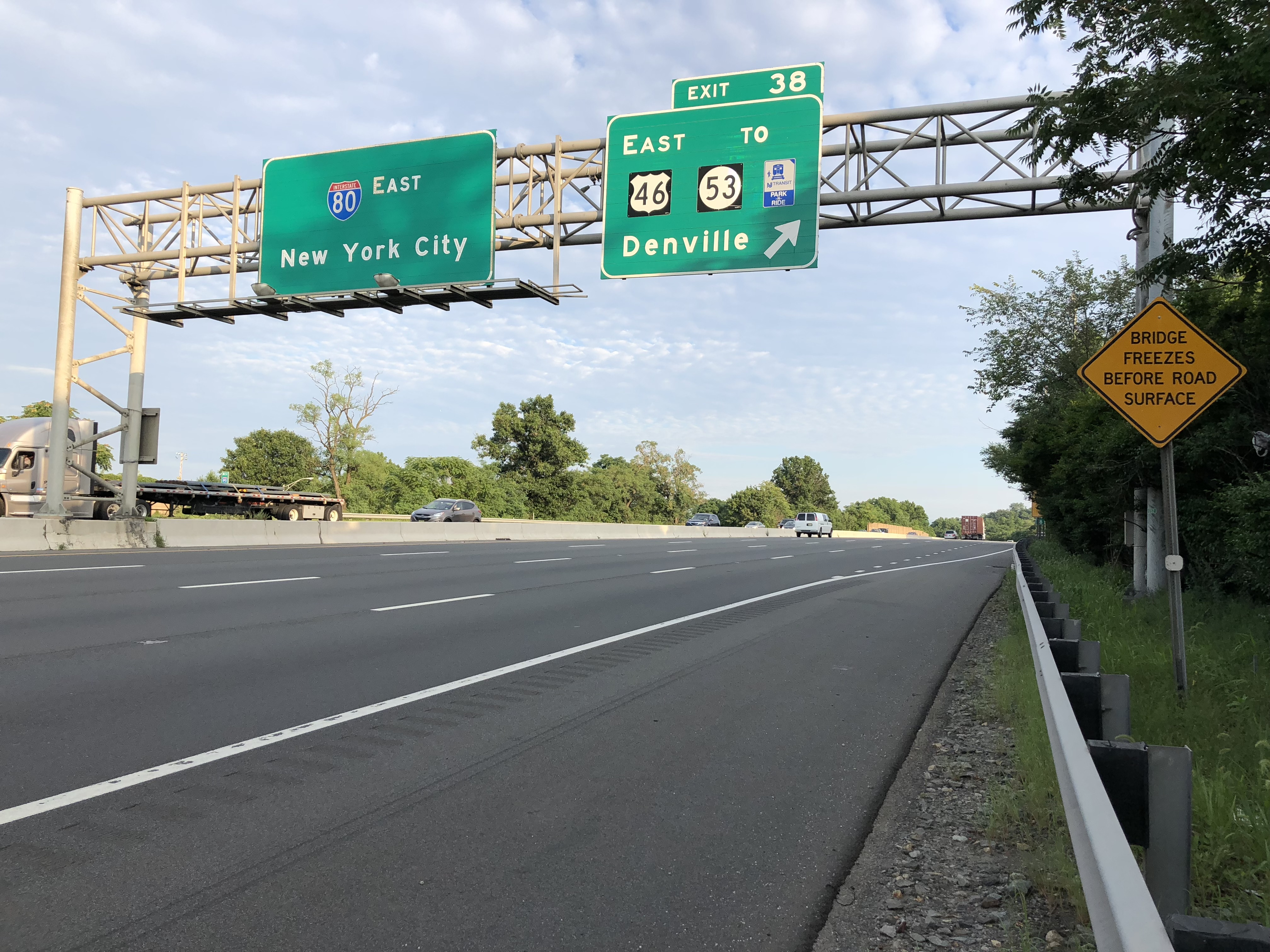 View east along Interstate 80 at Exit 38 (EAST U.S. Route 46, TO New Jersey State Route 53, Denville) in Denville Township, Morris County, New Jersey